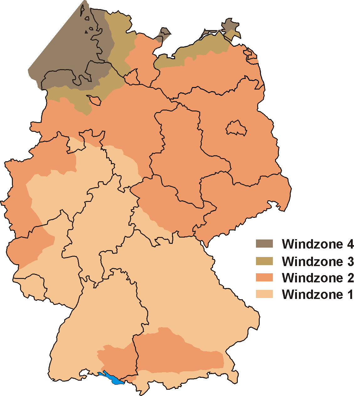 Windload areas of Germany